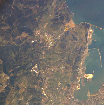 Western part of Biscay coast seen by satellite.